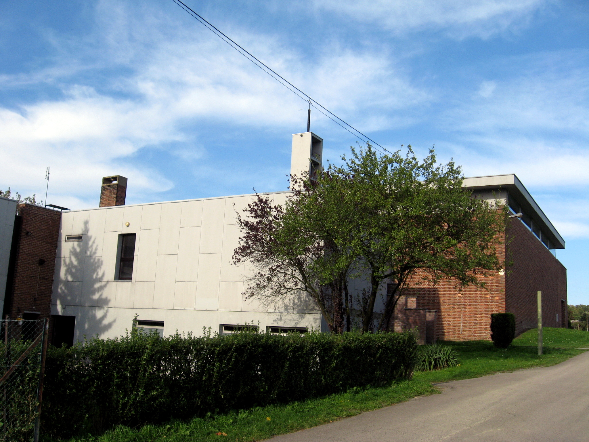 Church of the saint Thérèse of the Child Jezus in Ottomont, Andrimont, Dison, Liège, Belgium